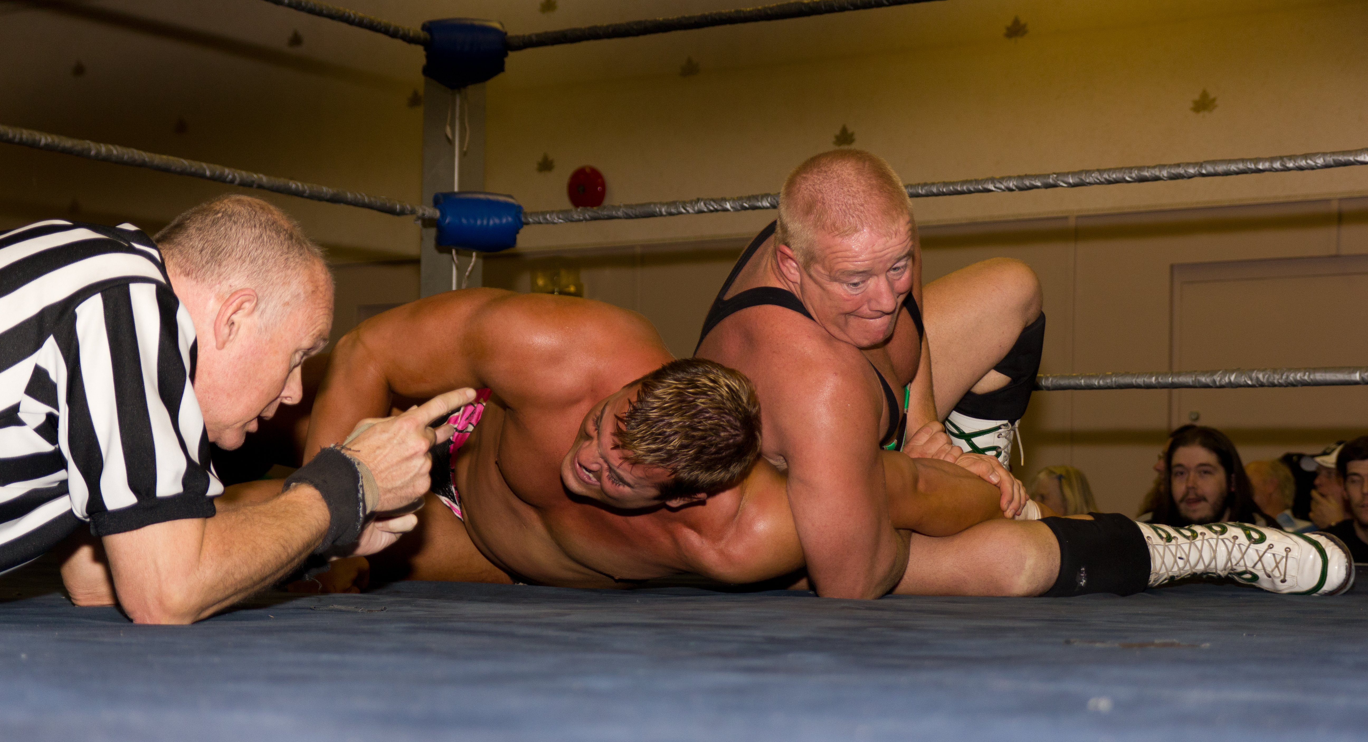 Fit Finlay (far right) putting Harry Smith (centre) in a Fujiwara armbar